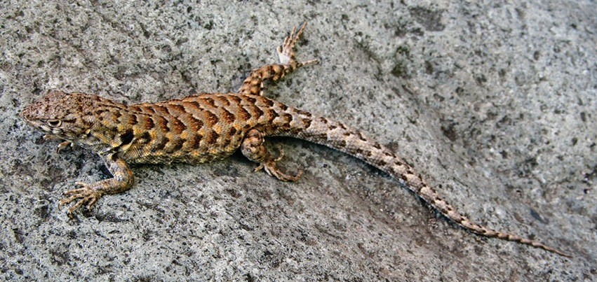 Adult female Liolaemus atacamensis from Lomas de Buitre, Chile.